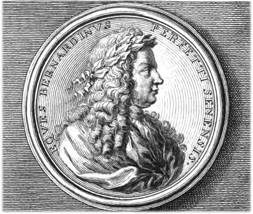 Portrait of Bernardino Perfetti (1681-1746), Italian jurist and poet